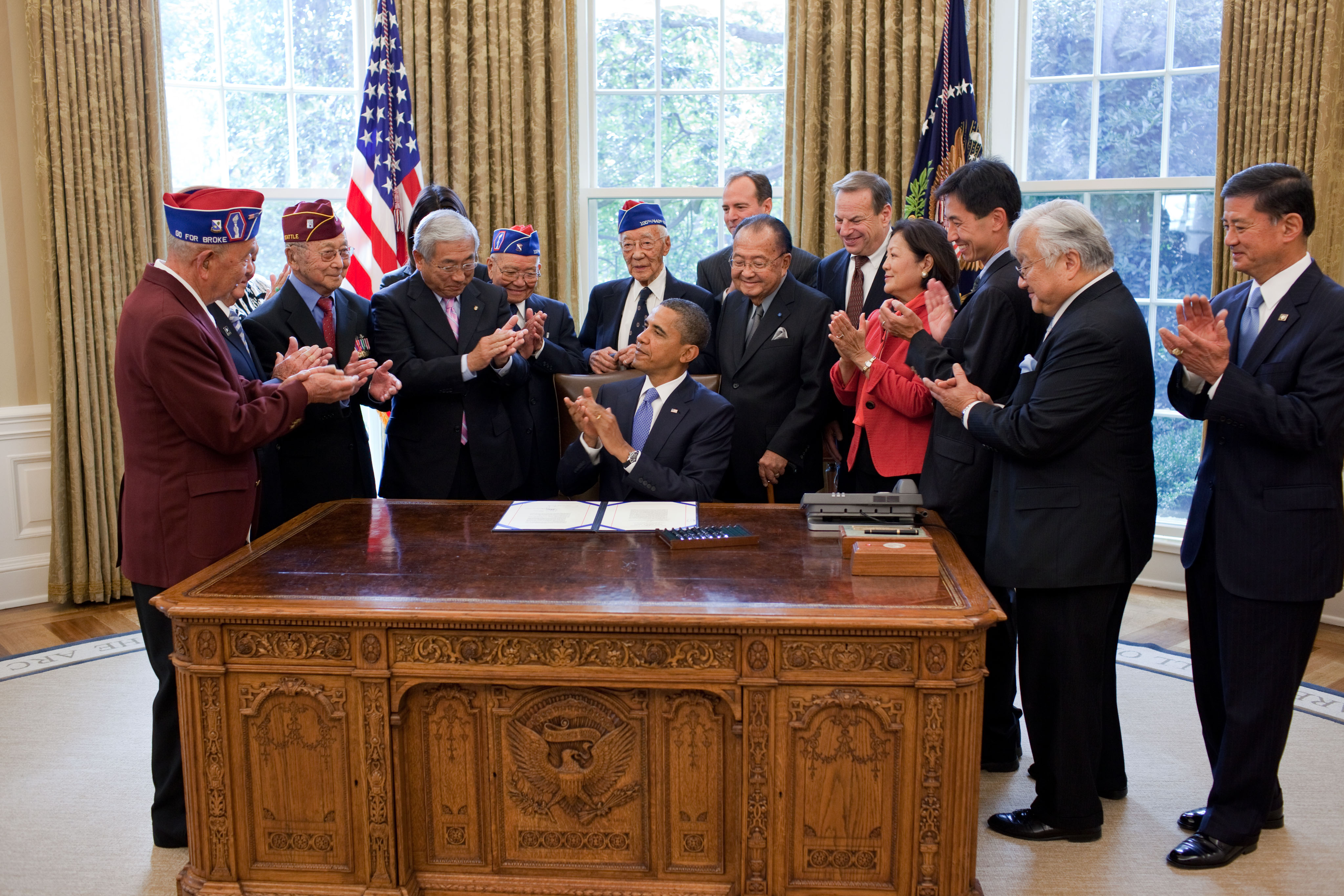 President Barack Obama and his guests applaud after signing S.1055, a bill to grant the Congressional Gold Medal, collectively, to the 100th Infantry Battalion and the 442nd Regimental Combat Team, in recognition of their dedicated service during World War II, in the Oval Office. Also present are Rep. Mike Honda and Secretary of Veterans Affairs Eric Shinseki.